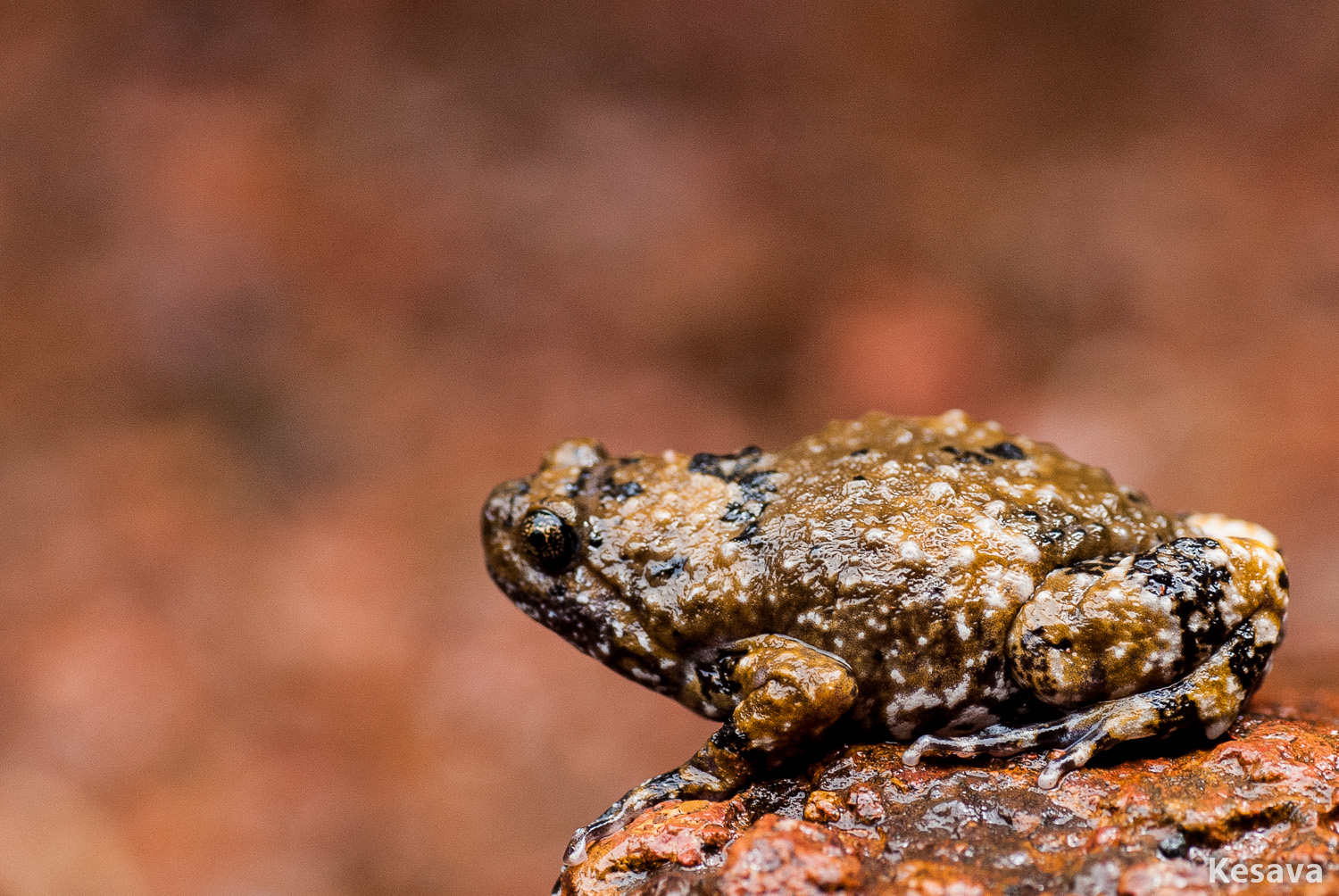 Ramanella mormorata from Amboli Ghat